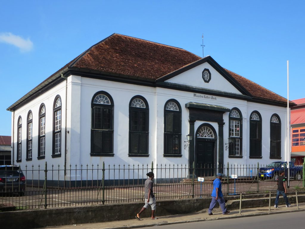 Maarten Luther Kerk (1834) opposite the Central Market on Wateekrant in Paramaribo, Suriname, displays typical Dutch architecture.